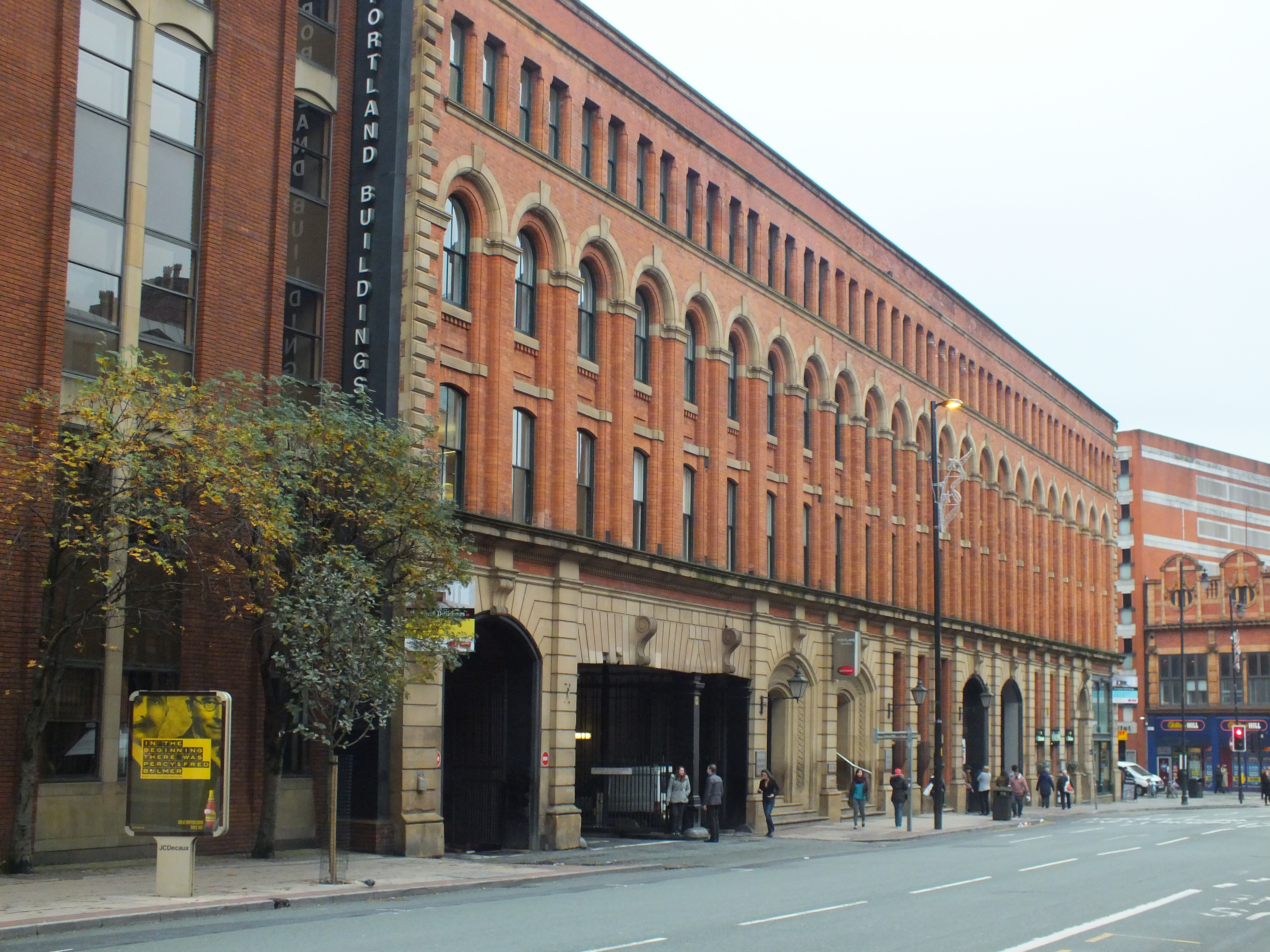 Portland Street, Manchester England. A street of prestigious warehouses now converted for other residential and office uses. Behrens Warehouse, Oxford Place on the corner of Oxford Street.